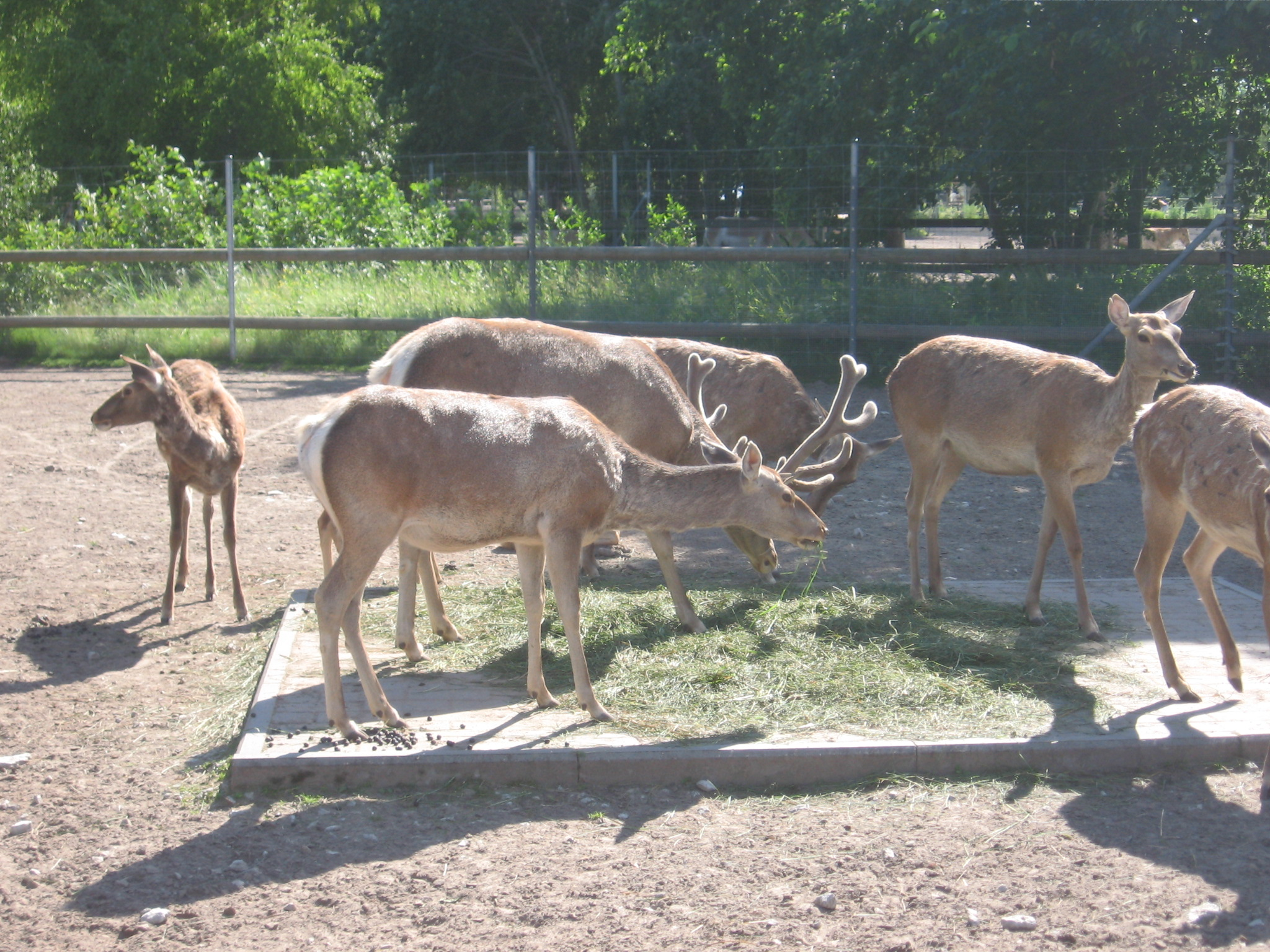 Tallinn Zoo Bactrian deer (Cervus elaphus bactrianus)